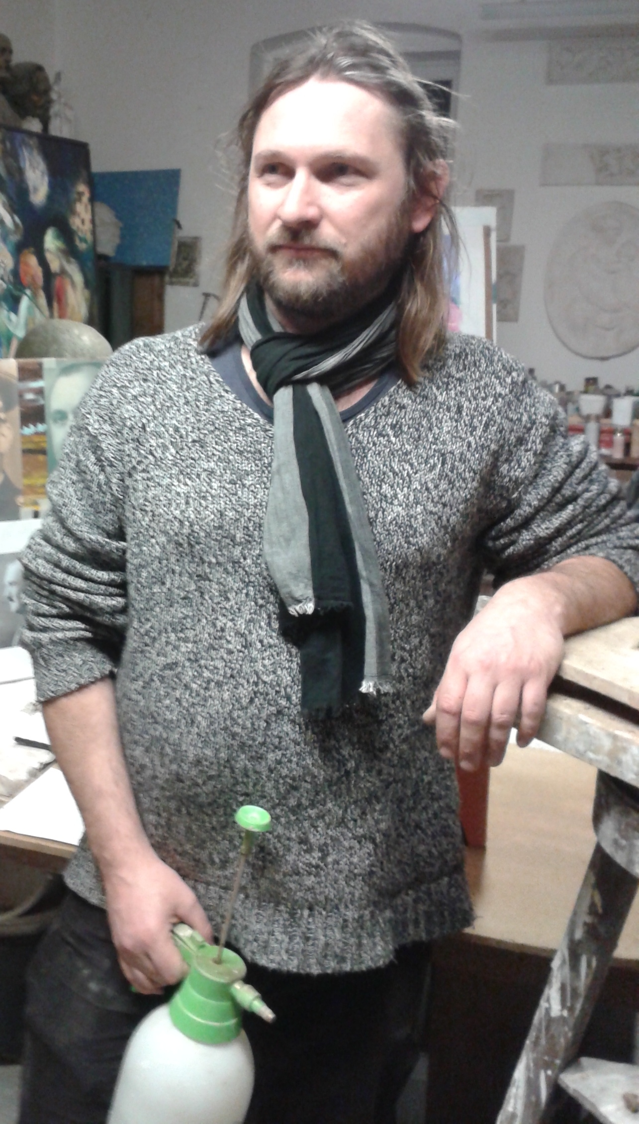 Jaroslav Šindelář jr. (* December 3, 1972 in Vsetín, Czech republic) - a Czech sculptor, restorer of historical sculptures and a teacher of art education that is living in the Pilsen region.